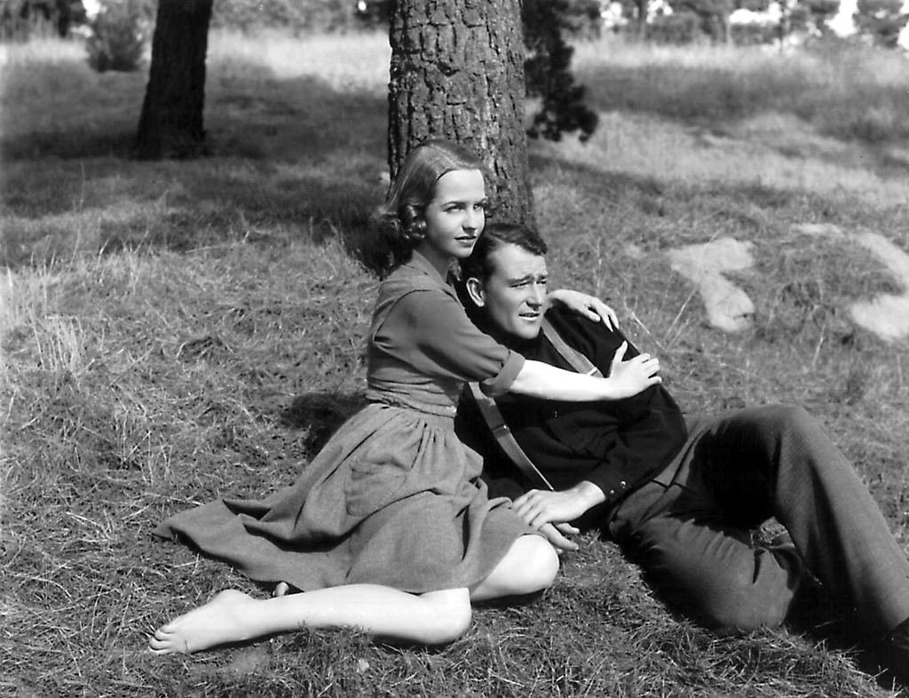 Betty Field and John Wayne in The Shepherd of the Hills (1941) - publicity still